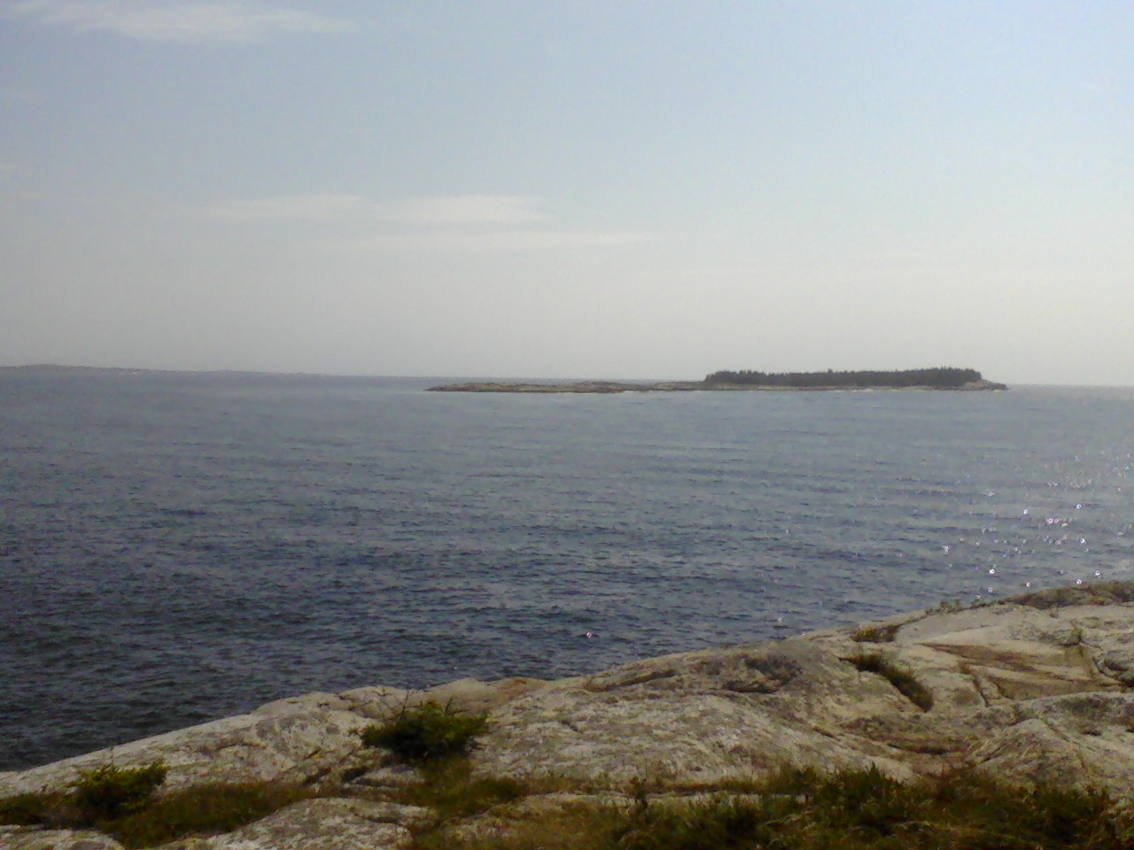 Southwest Island, St. Margarets Bay, Lunenburg County, Nova Scotia, Canada. Western shore, taken from the Aspotogan Peninsula.